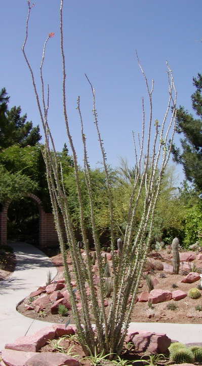 Photo of Ocotillo at the Desert Demonstration Garden in Las Vegas, Nevada